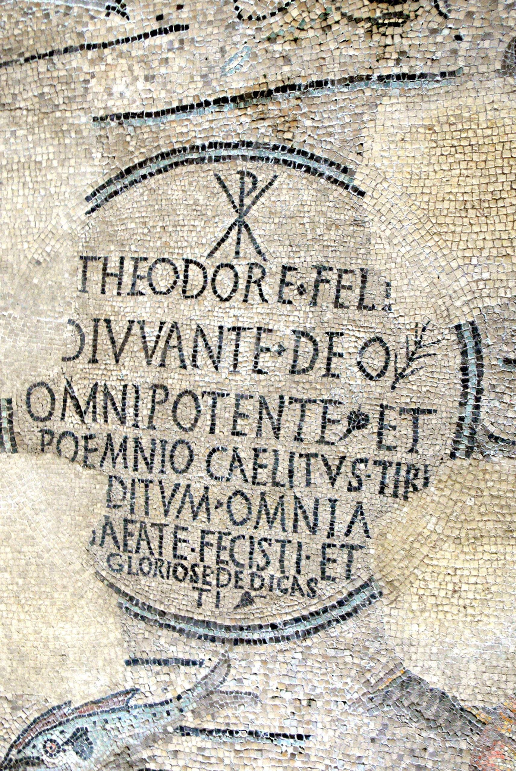 Patriarch's basilica, Aquileia. Mosaic ( 4th century ) with latin inscription: "THEODORE FELI(X) (A)DIUVANTE DEO OMNIPOTENTE ET POEMNIO CAELITUS TIBI (TRA)DITUM OMNIA (..)AEATE FECISTI ET GLORIOSE DEDICASTI. ( Theodore, with the help of the allmighty god and the herd, that was tradited to you by heaven, you have completed that building and gloriously dedicated to god ). AE 1986, 243.